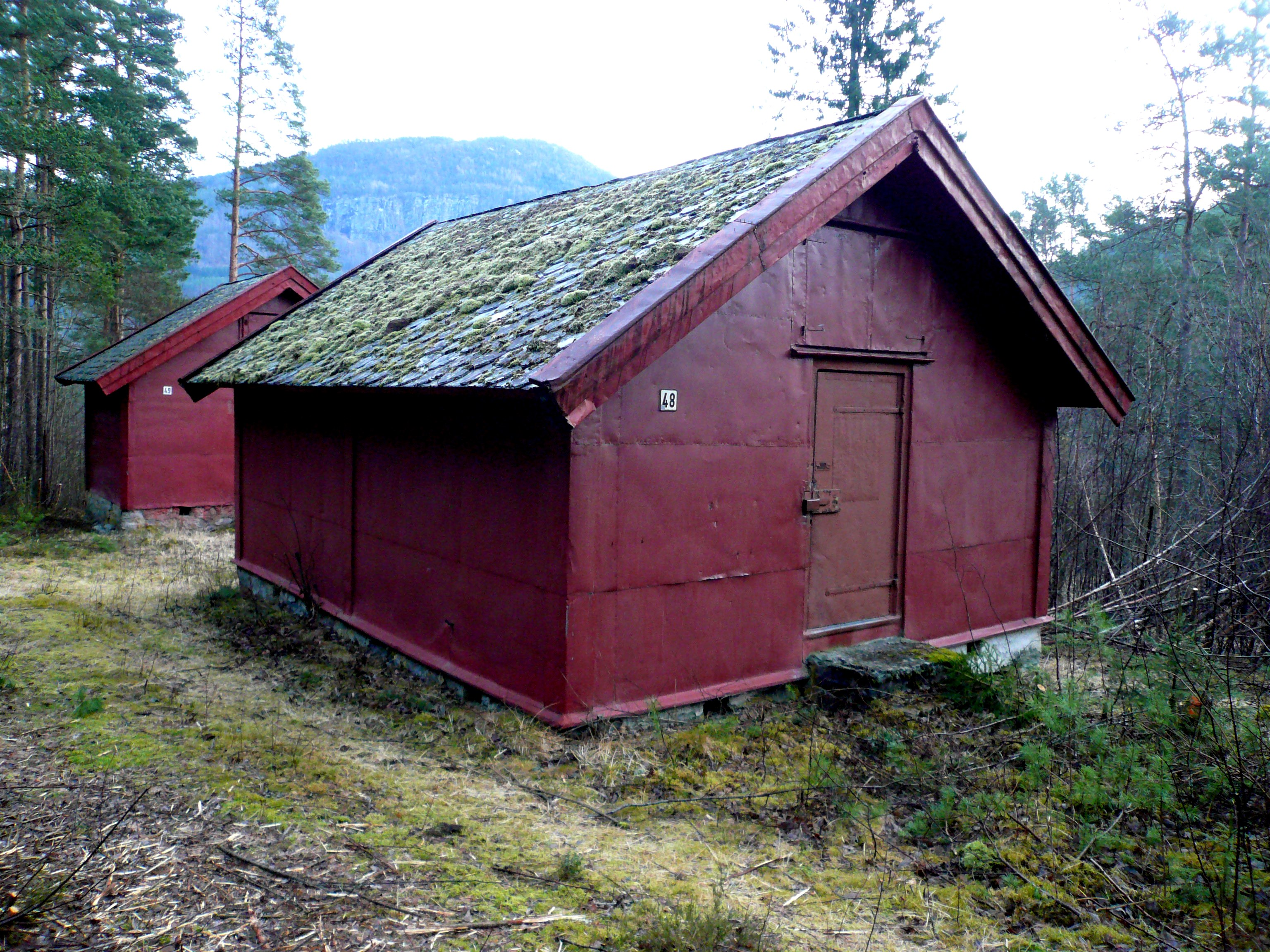 Bømoen, Voss, Norway